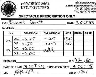 Image of an eyeglass prescription OD: +0.25-1.00x 47, OS: +0.25-0.75x 113, add: +2.50 Image of my own eyeglass prescription. Released under terms of the Wikipedia license.